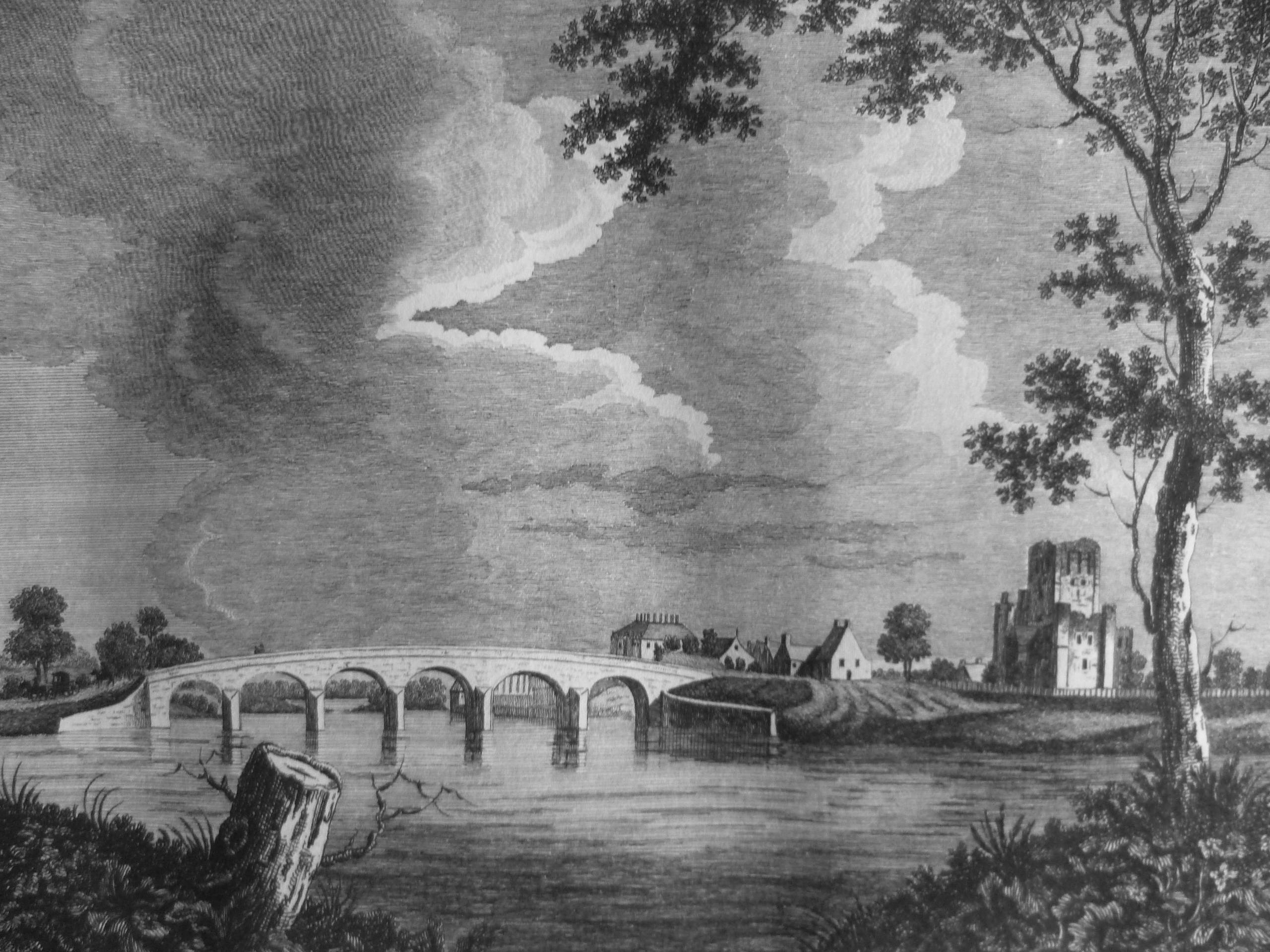 Kelso Abbey and the old bridge, which collapsed in 1797 and was replaced by a bridge built by John Rennie, pictured in the late 18th century